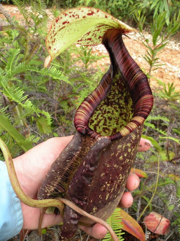 Nepenthes rafflesiana, Johor, Peninsular Malaysia